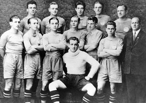 Građanski lineup that won the 1926 Kingdom of Yugoslavia championship. First row (left to right): D. Babić, Rupec, Ivančić, Perška, Mantler. Second row (left to right): Cindrić, Giler, R. Hitrec, Remec, N. Babić, Urbanke, Josef Brandstätter (coach). Sitting: Mihelčić.